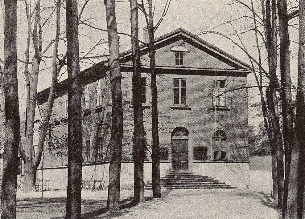 Kuggis, University building in Lund, Sweden, demolished in 1897